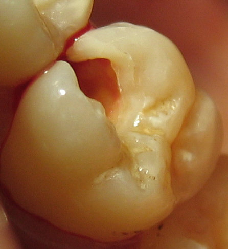 Tooth #3, the upper right first molar, with the beginning of a mesial-occlusal preparation for dental restoration.